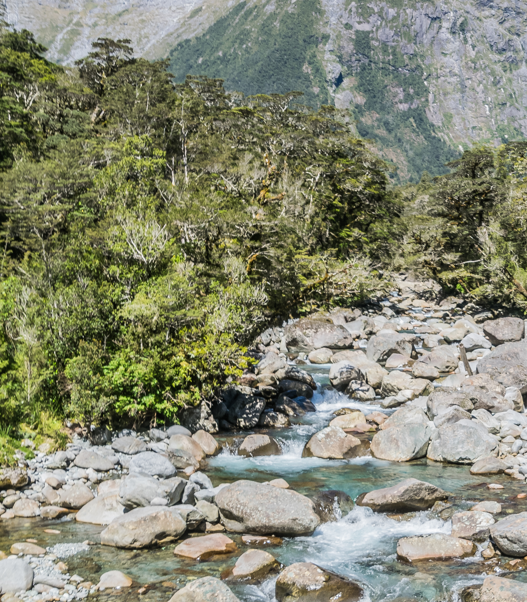 Donne River in Fiordland National Park, South Island of New Zealand